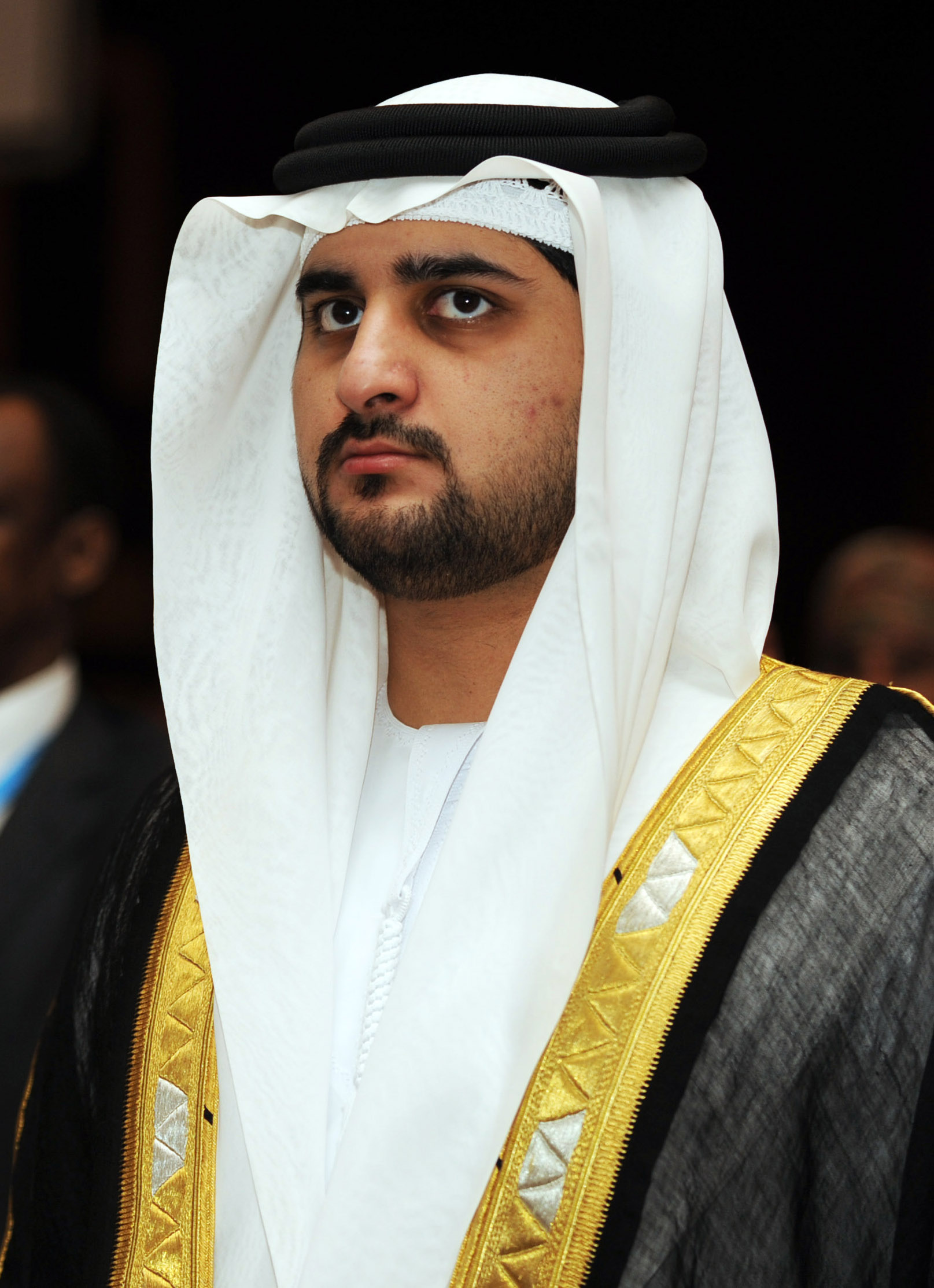 Sheikh Maktoum bin Mohammed bin Rashid Al Maktoum in October 2012.